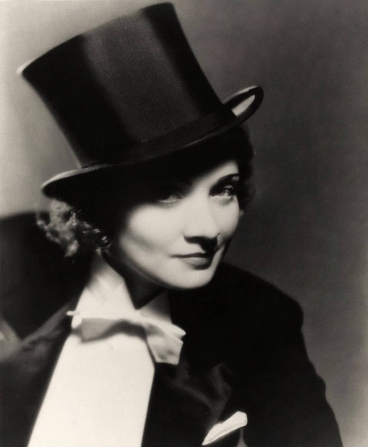 Morocco (film) 1930 Josef von Sternberg, director. Marlene Dietrich, cross dress, top hat. Paramount Pictures.